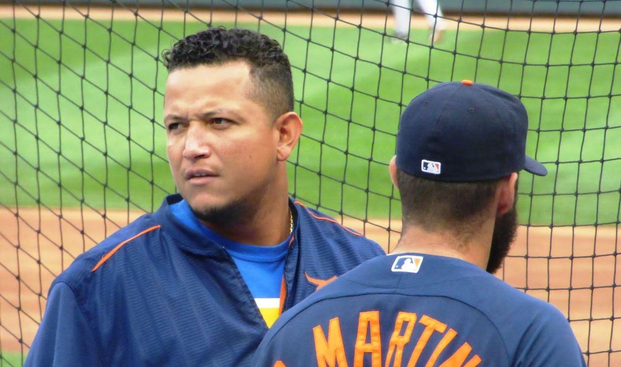 Miguel Cabrera during batting practice before a game at Target Field.